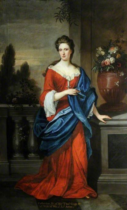 Portrait of Catherine Gage (c.1635 - c.1720)